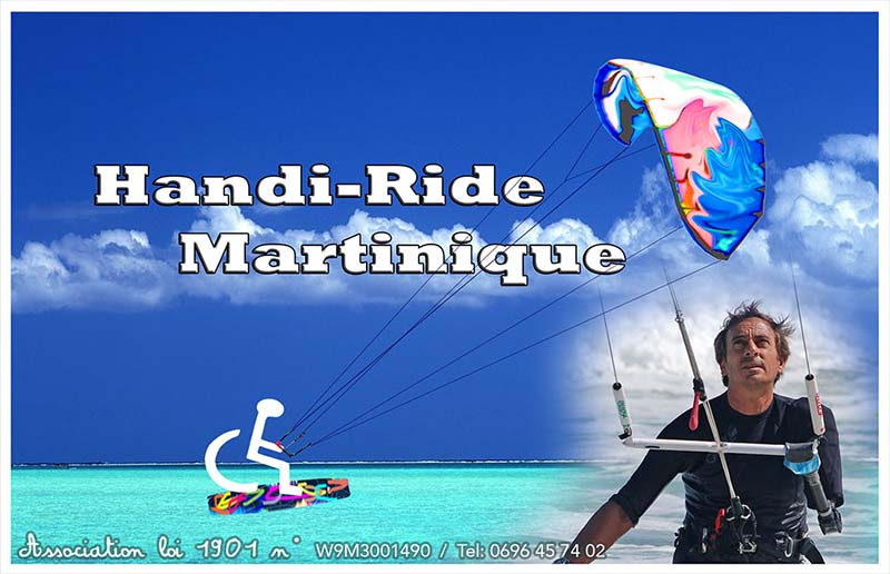 Handi-Ride Martinique